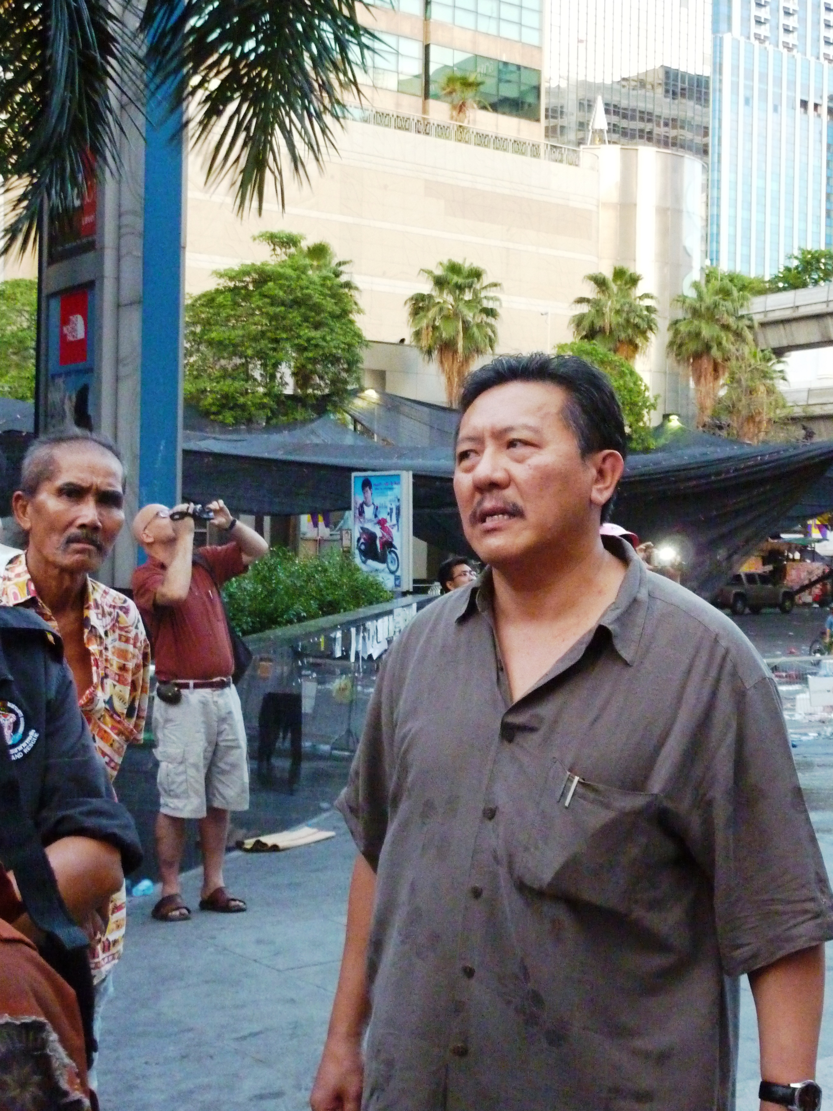 Chuvit outside the World Trade Centre the day after the fire that gutted Zen and part of the Central World department store in Bangkok, Thailand.